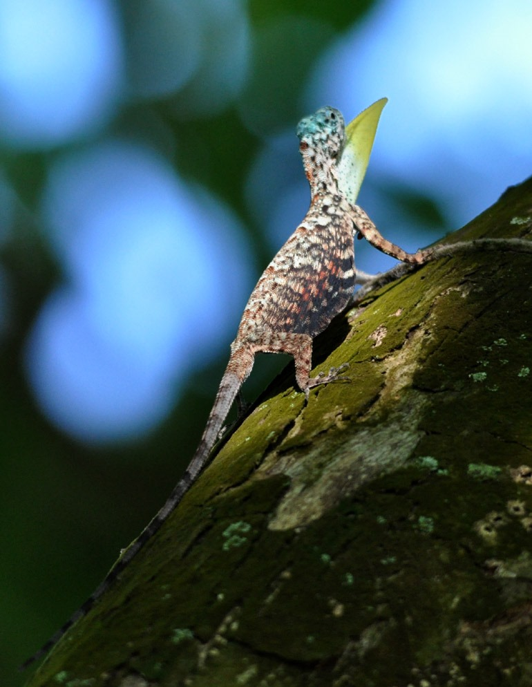 Male seen at Kent Ridge Park, Singapore